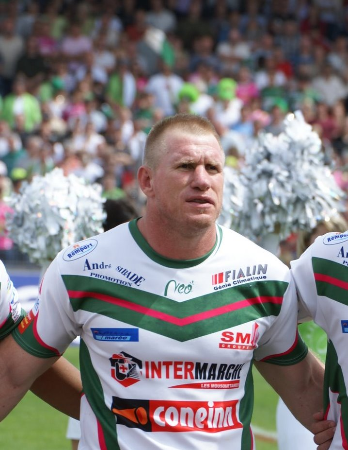 Chris Beattie, Australian rugby league player.